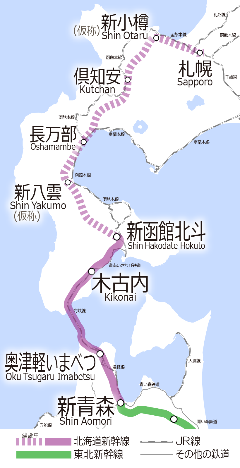 Map of the Hokkaidō Shinkansen. Oku-Tsugaru, Shin-Hakodate, Shin-Yakumo and Shin-Otaru are tentative name.